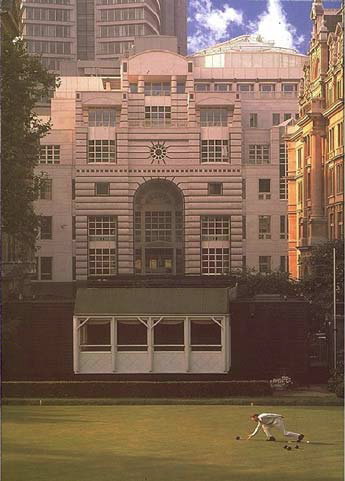 ING, 60 London Wall, London